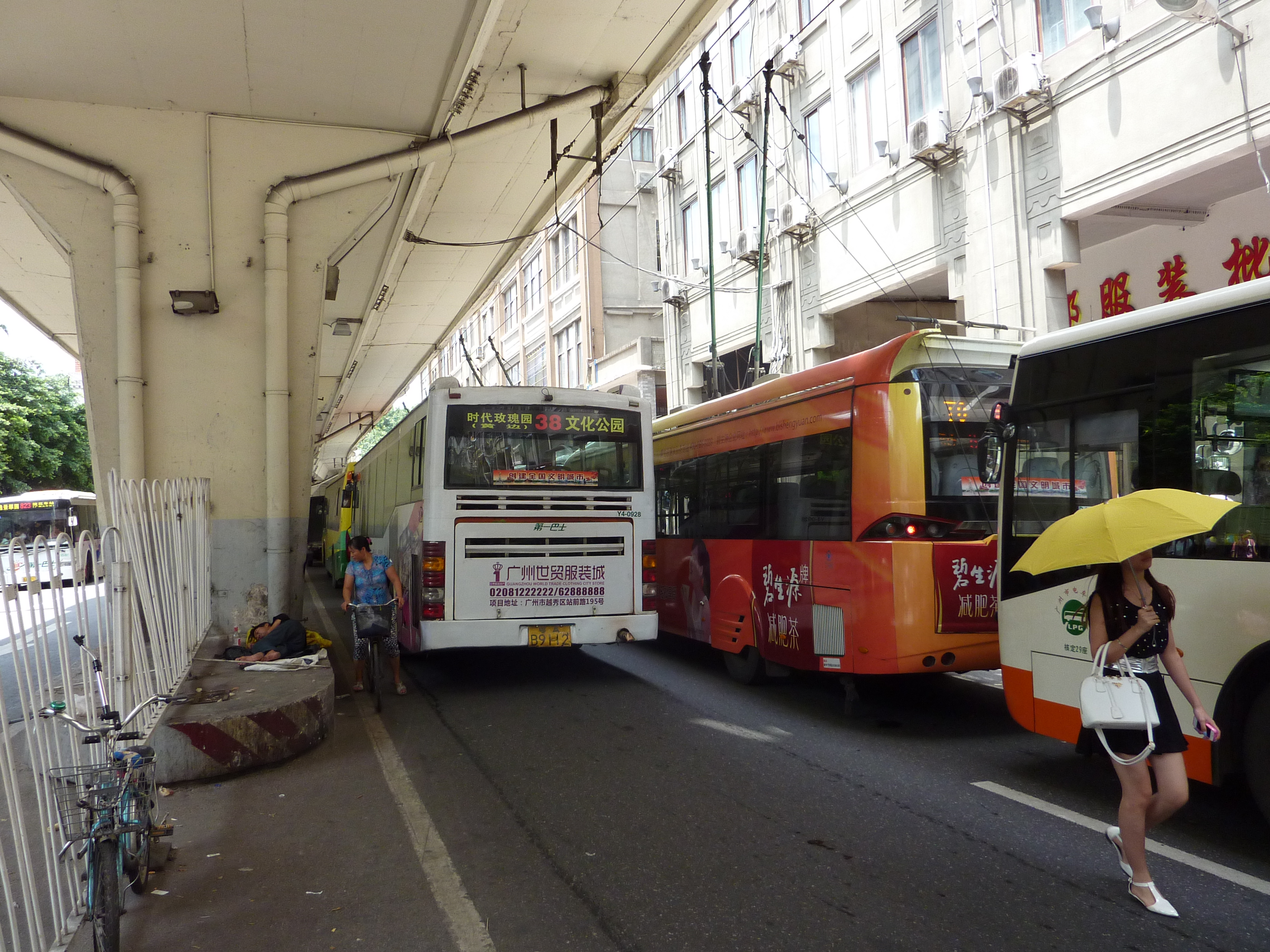 Street in Guangzhou, People's Republic of China